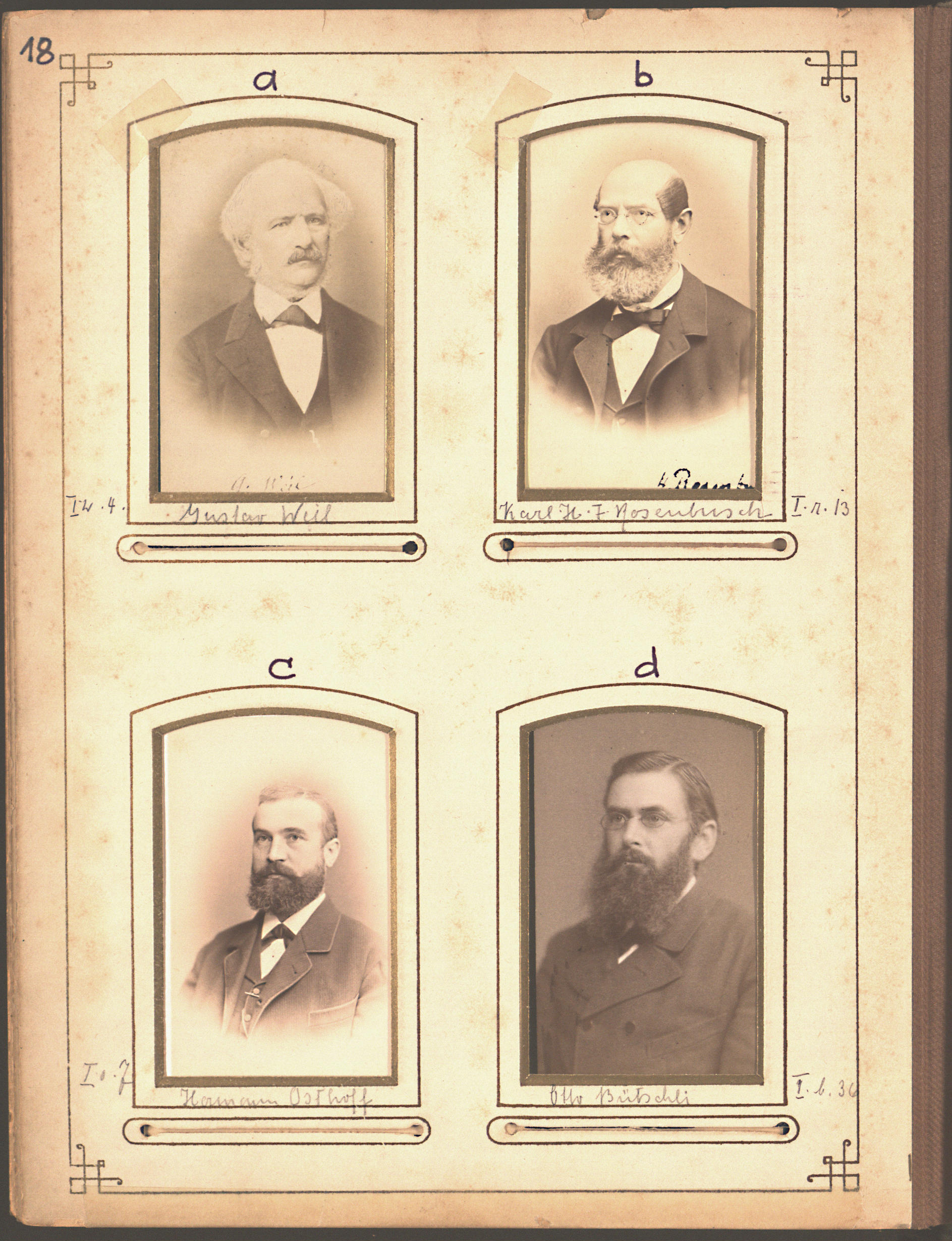 Depicting a: Weil, Gustav. b: Rosenbusch, (Carl) Harri (Ferdinand). c: Osthoff, Hermann. d: Bütschli, Otto (Johann Adam)